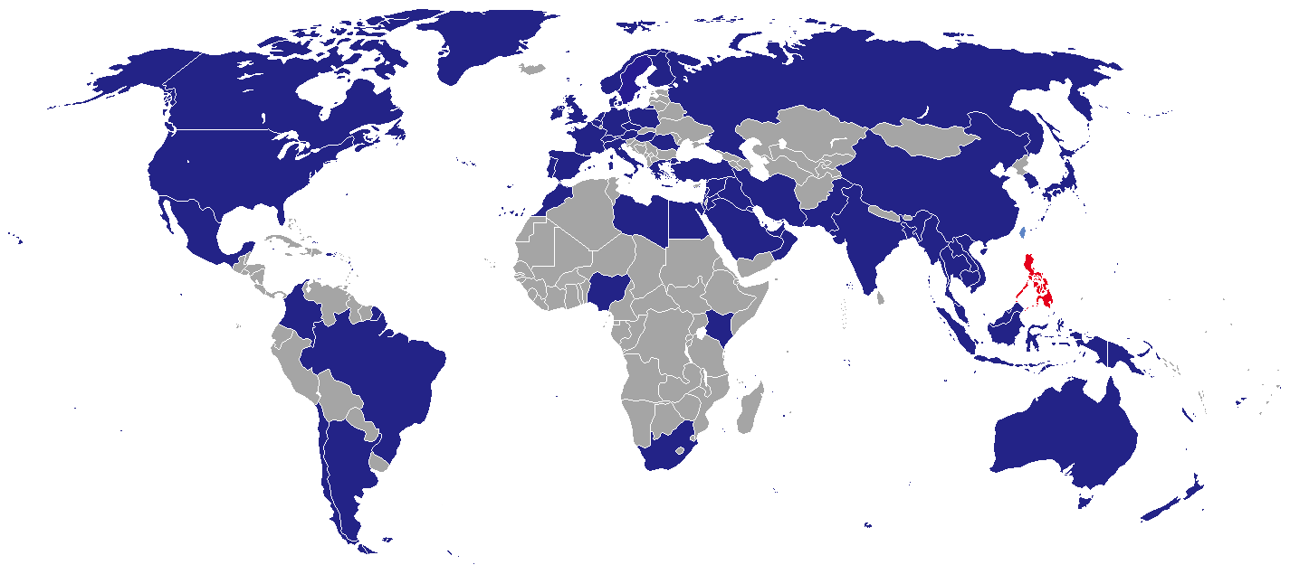 Map of diplomatic missions of the Philippines